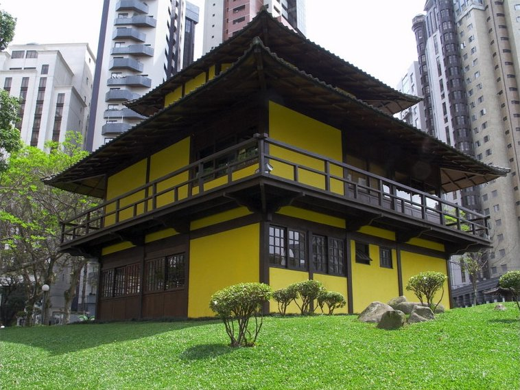 Japan Plaza, Curitiba, Paraná, Brasil